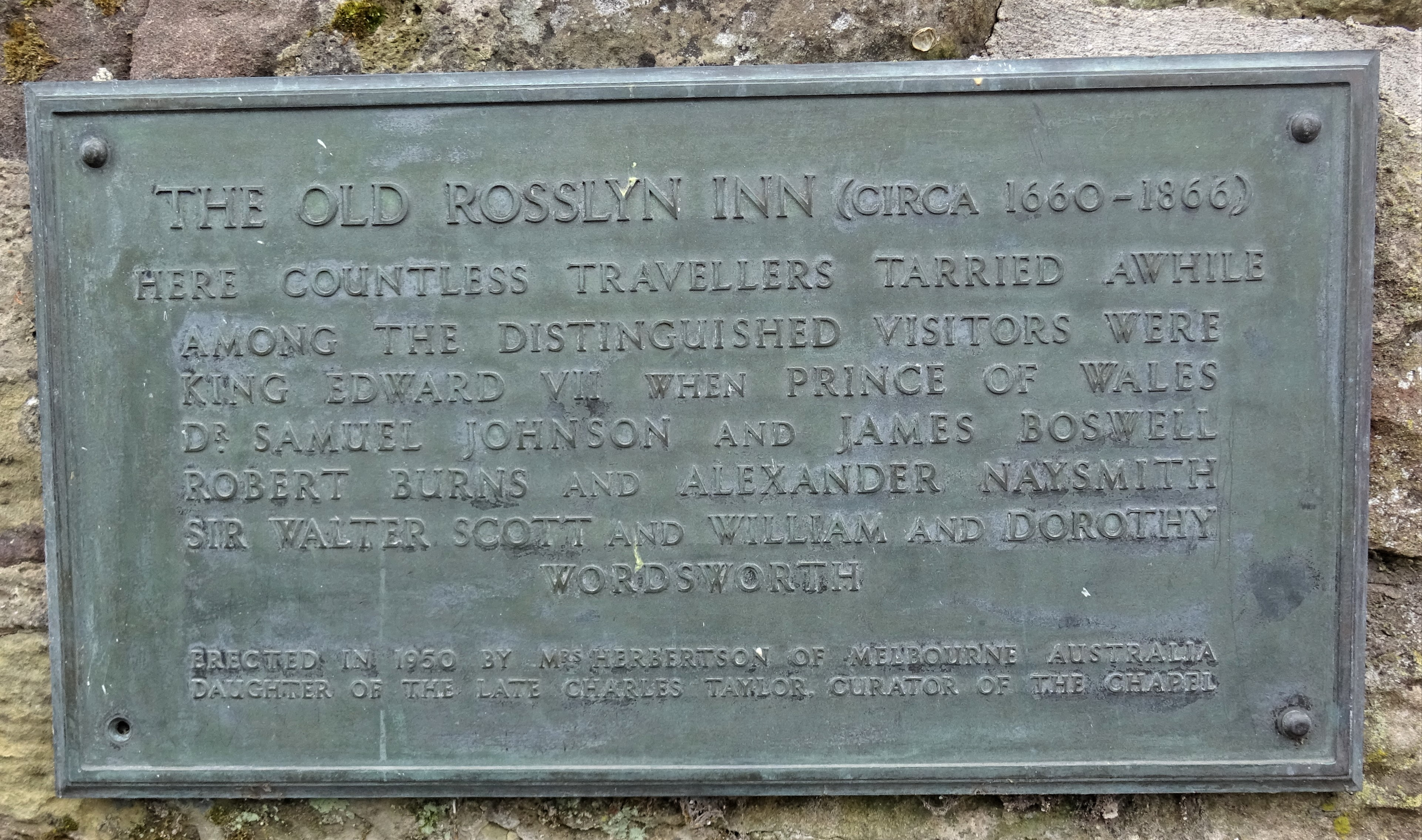 The copper Rosslyn Inn plaque, Roslin, Midlothian, Scotland recording the visits of Robert Burns, Alexander Nasmyth, Sir Walter Scott and others to the inn. The inn had been the residence of the guardian of RosslynChapel.